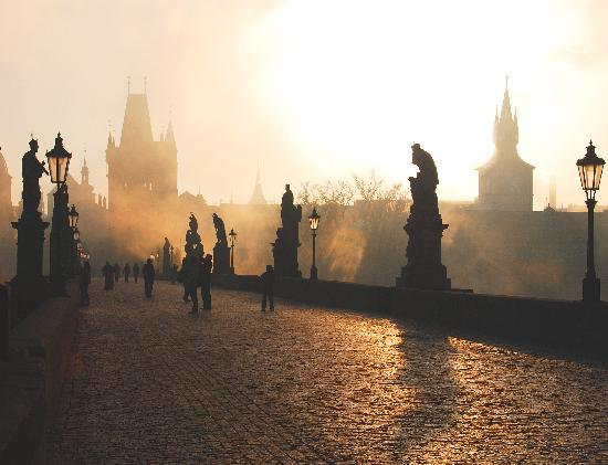 Prague Charles Bridge